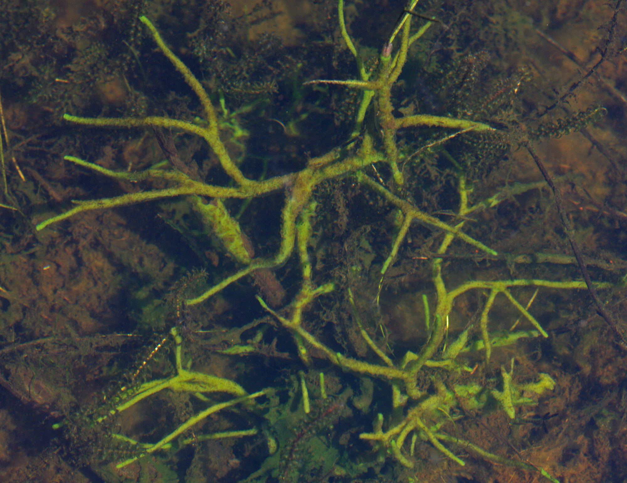 Freshwater sponges (Spongillidae; genus Spongilla?, species Spongilla lacustris?) on the ground of a clear forest pond about 45 cm in depth (photographed from above of the water surface – with the help of a polarizing filter). The antler-like shape is typical for sponges in still water, the green color is caused by embedded single-celled algae. All around there is some waterweed (Elodea sp.).